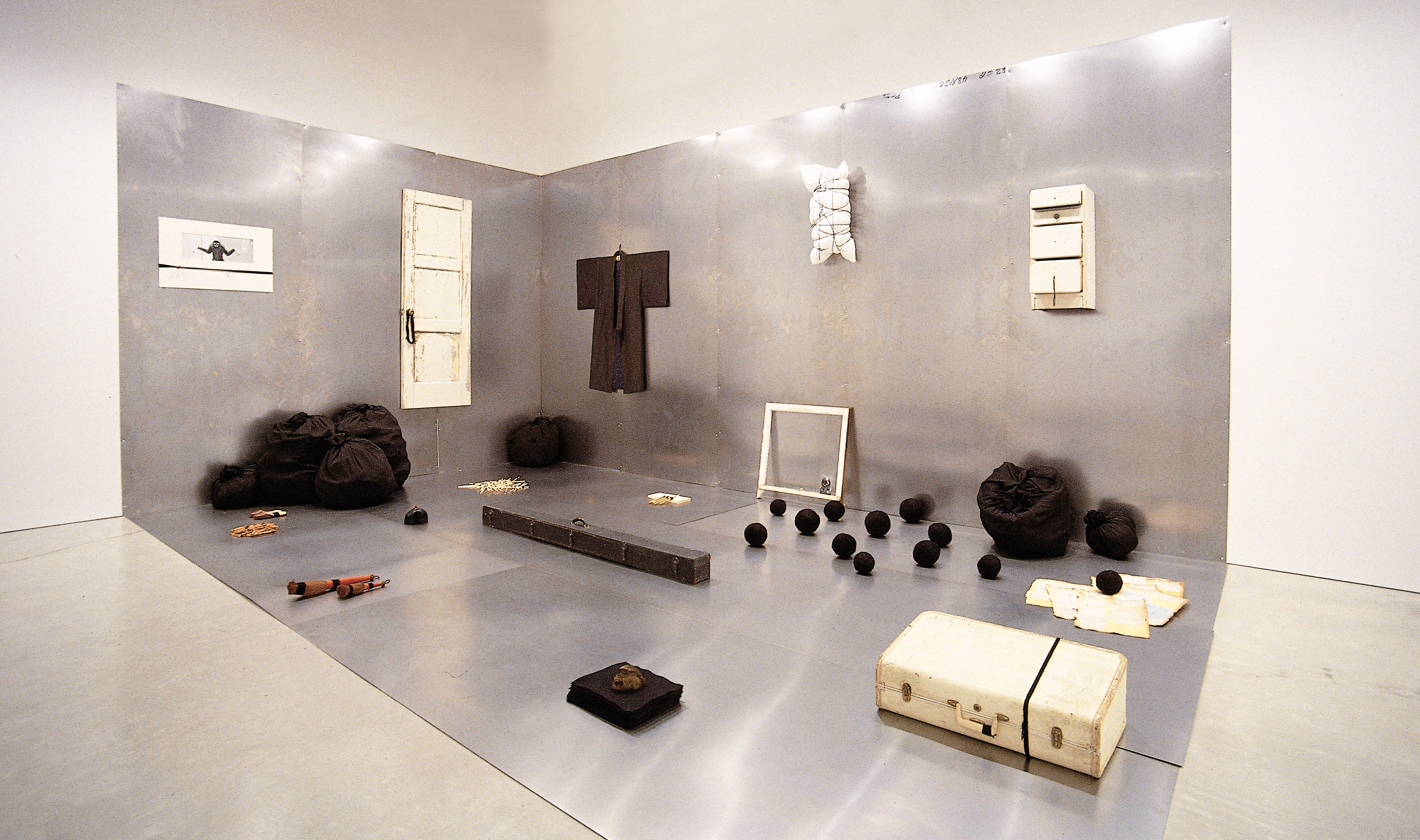 ph. Mark E. Smith